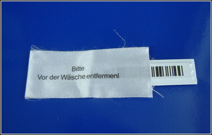 Magnetoacoustic Tag. Size: about 4x1x0.1 cm^2 Photographer: Anton